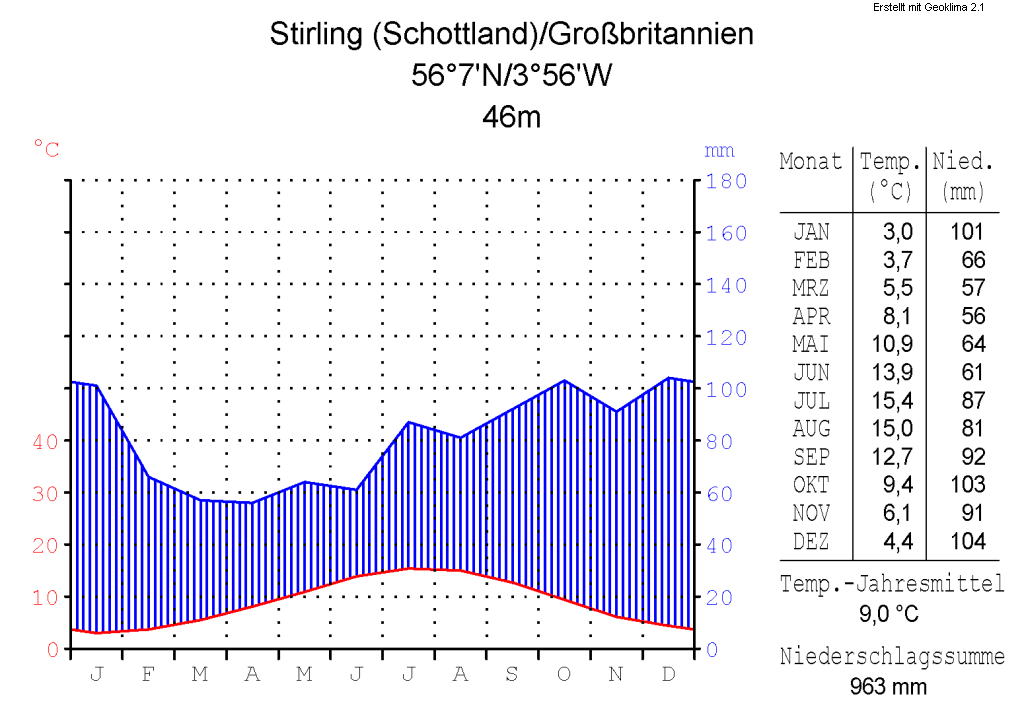 climate chart in the format by Walter and Lieth, metric, °Celsisus and millimeters, made with Geoklima 2.1